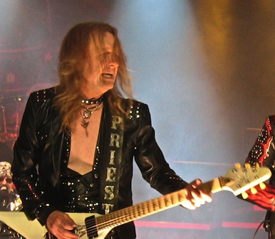 K. K. Downing 090311